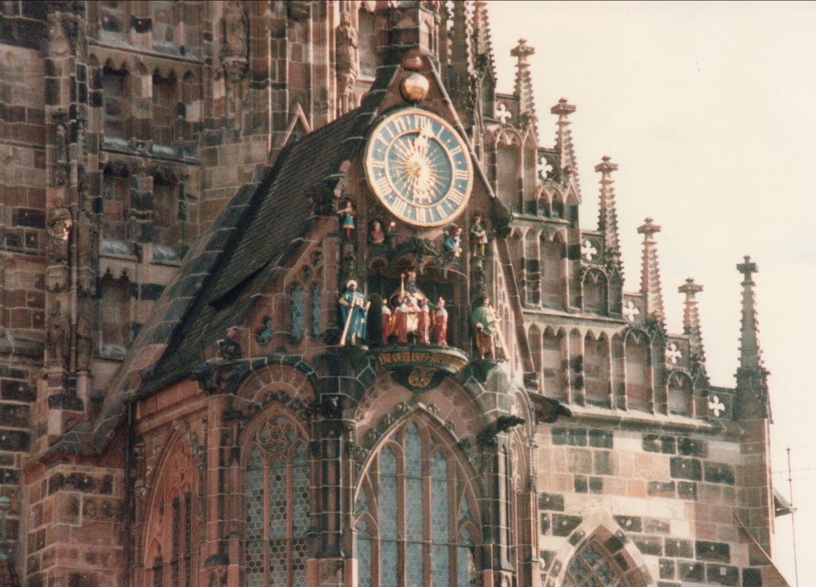 The famous Männleinlaufen ("Seven Electors") mechanical clock (installed 1506) of the Frauenkirche in Nuremberg, Germany